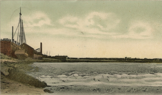 The Petitcodiac River tidal bore reproduced on a 1906 postcard. Moncton, New Brunswick, Canada.